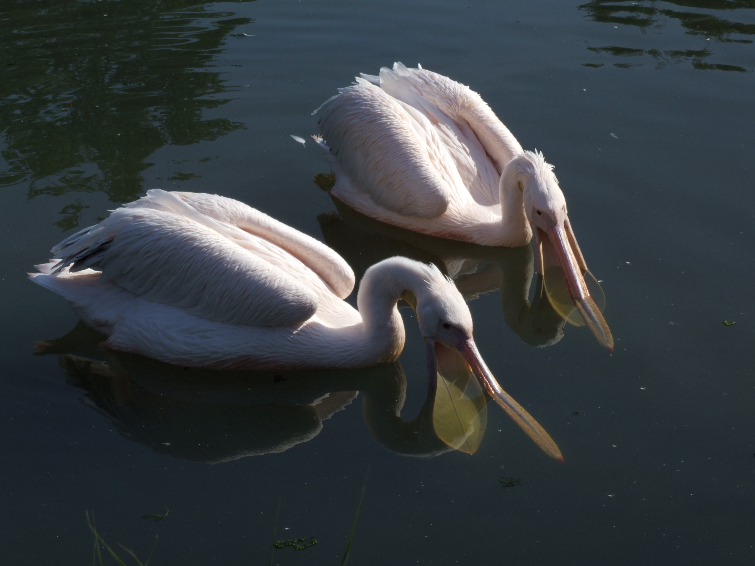 Pelecanus onocrotalus in Zoo Opole